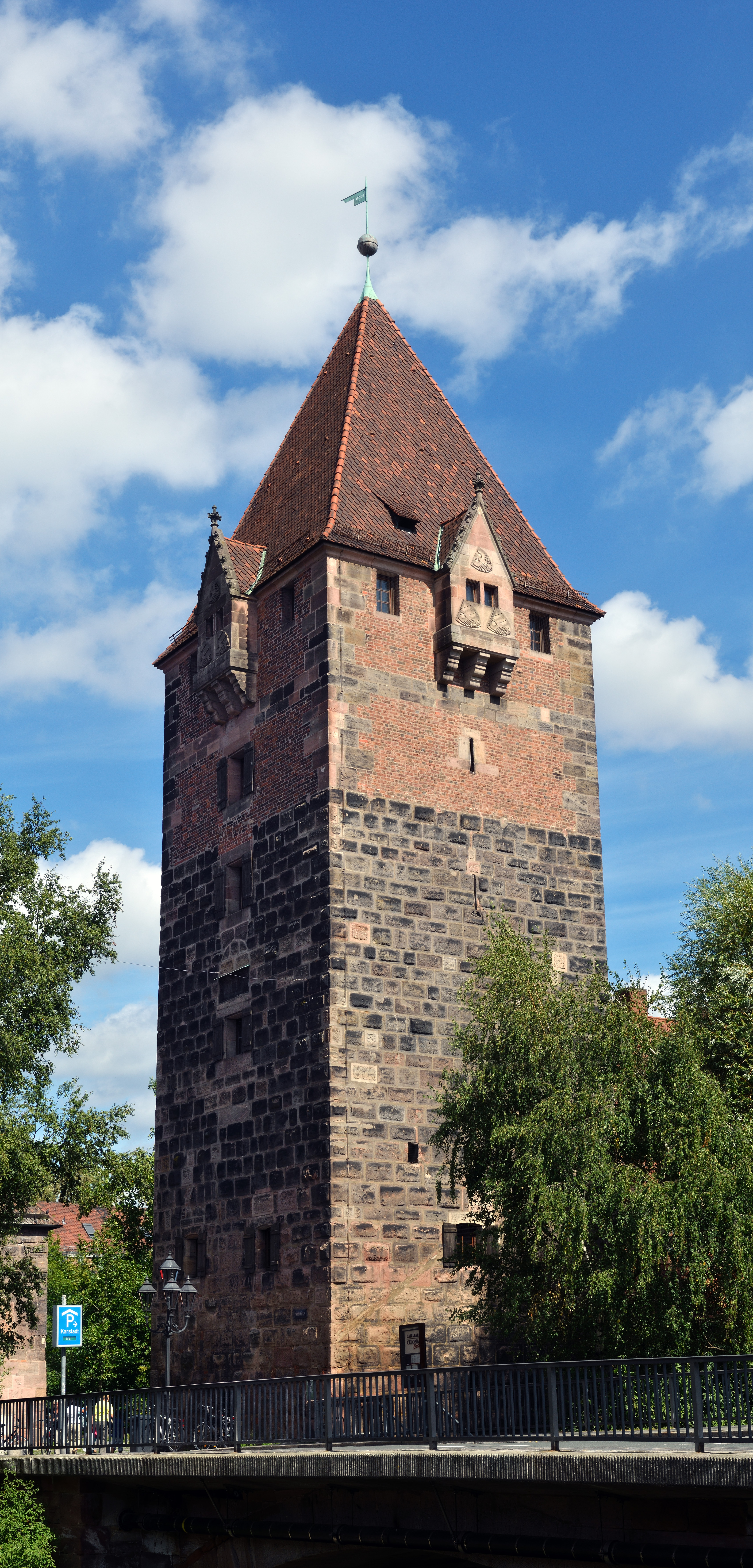 "Schuldturm" in Nuremberg, Germany. It is a four segment panoramic image.